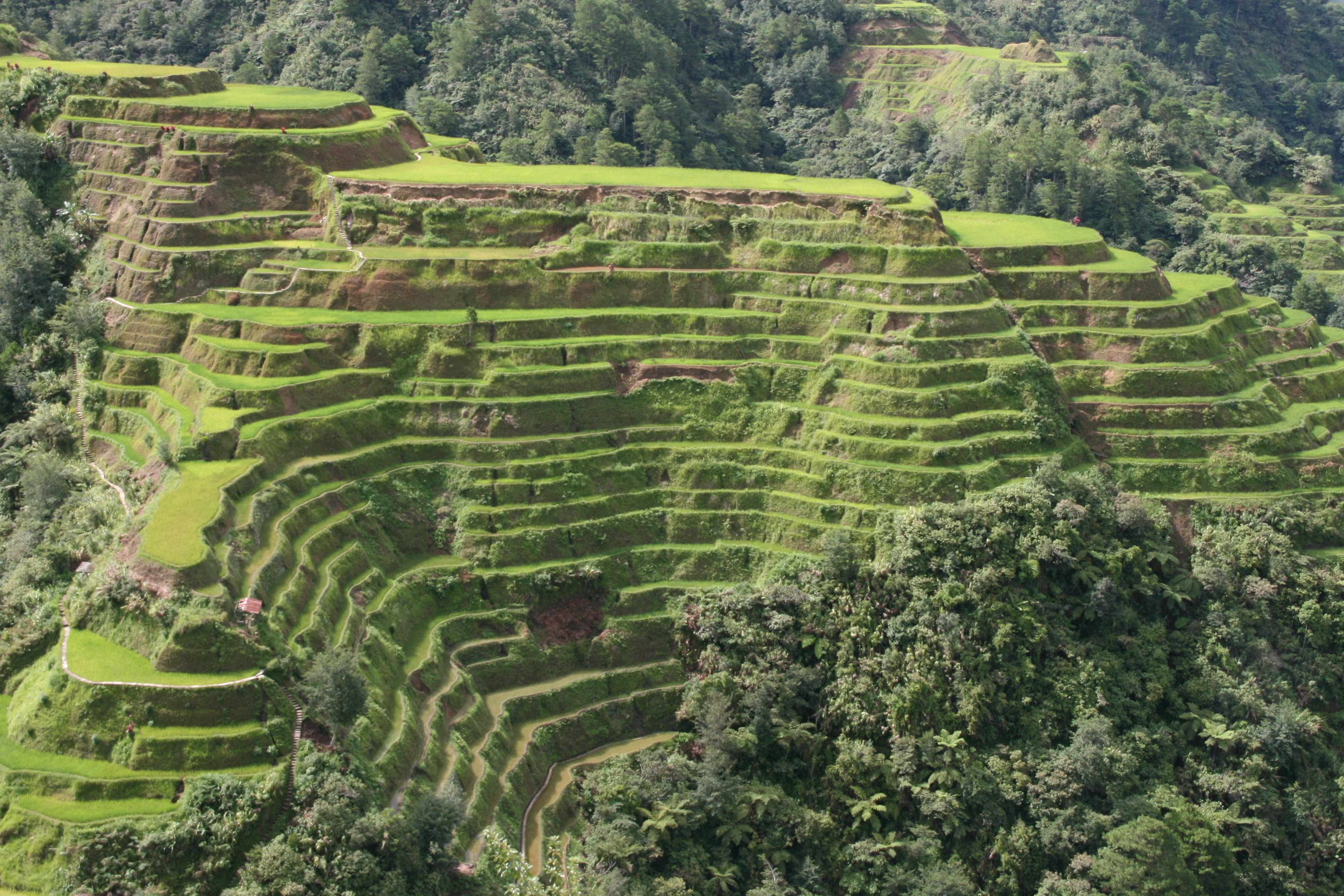 Banaue rice terraces (N. Luzon, Philippines)taken from observation point at beginning of road to Bontoc. Clear evidence of erosion of the terraces.